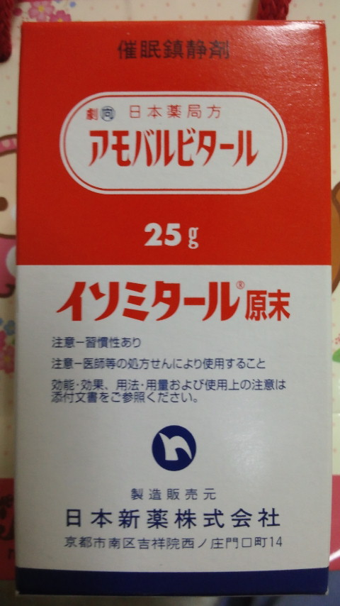 Template:日本語